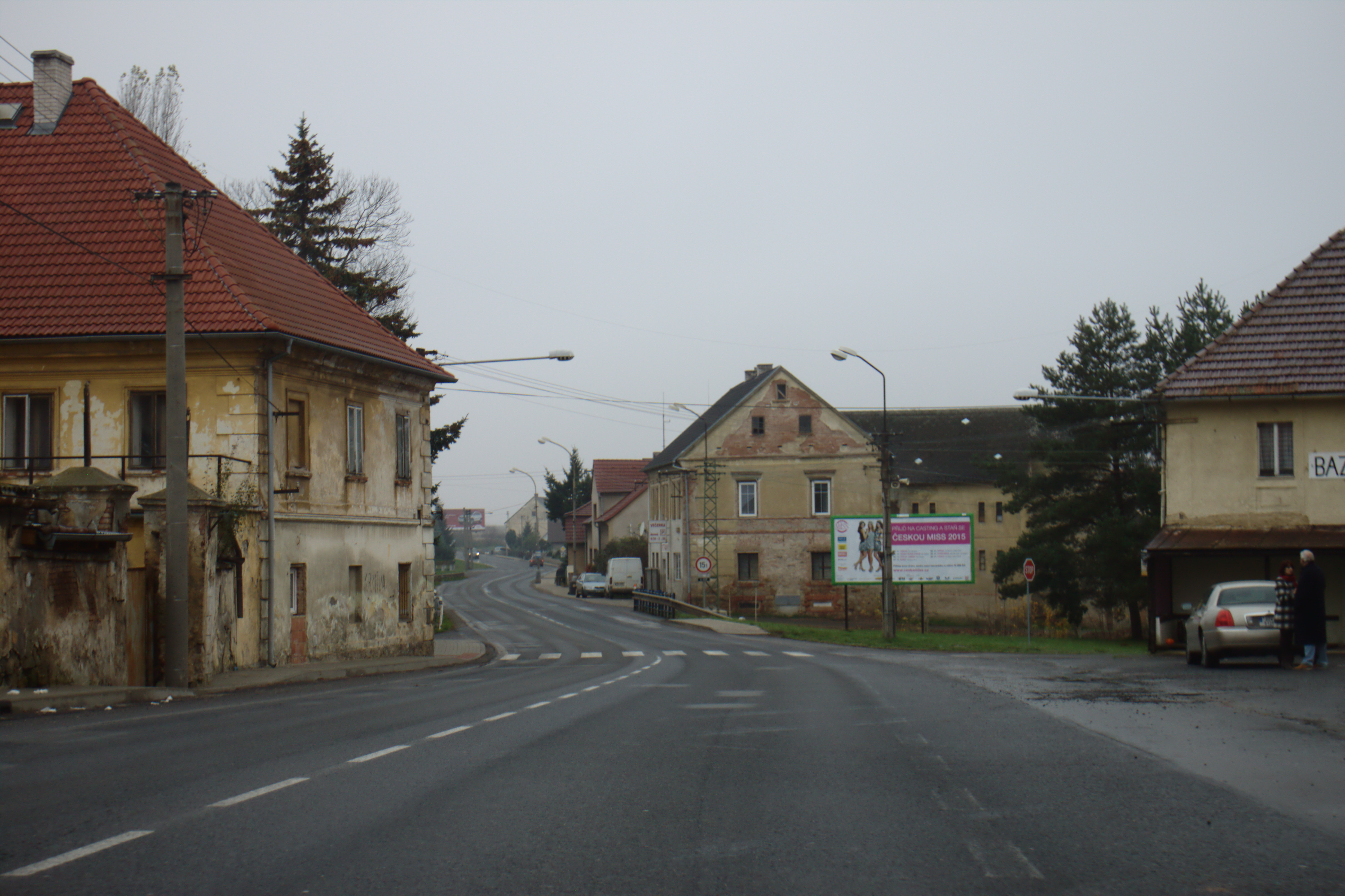 Central part of the village of Hořesedly, Central Bohemian Region, CZ